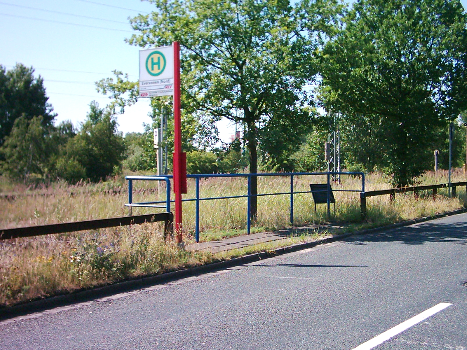 Place of World War II work camp Langer Morgen in Hamburg, Germany.